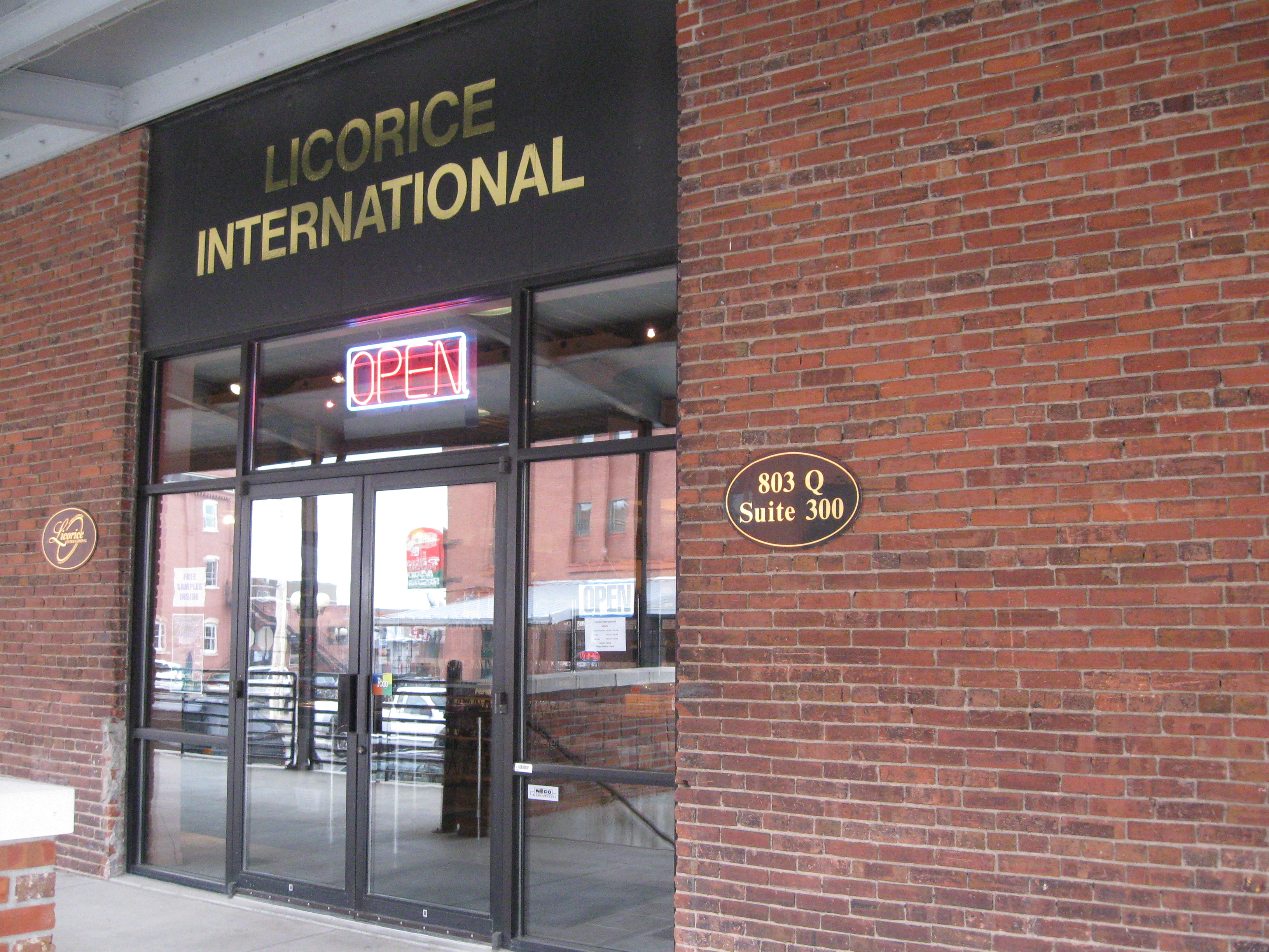 Outside of Licorice International retail store, Lincoln, Nebraska, Haymarket area.